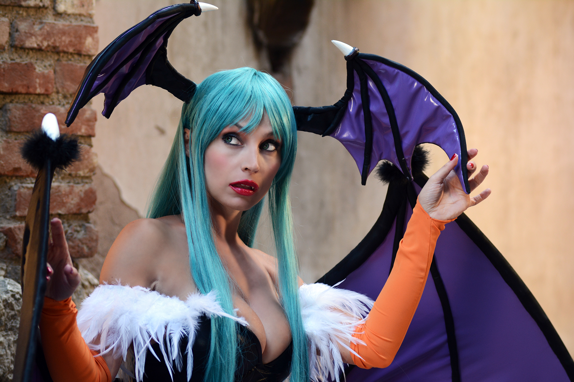 GiorgiaCosplay as the succubus Morrigan from the videogame Darkstalkers also kwon as Vampire Savior or Night Warriors